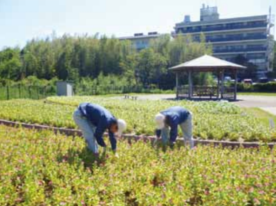 Social contribution activities at juvenile training schools